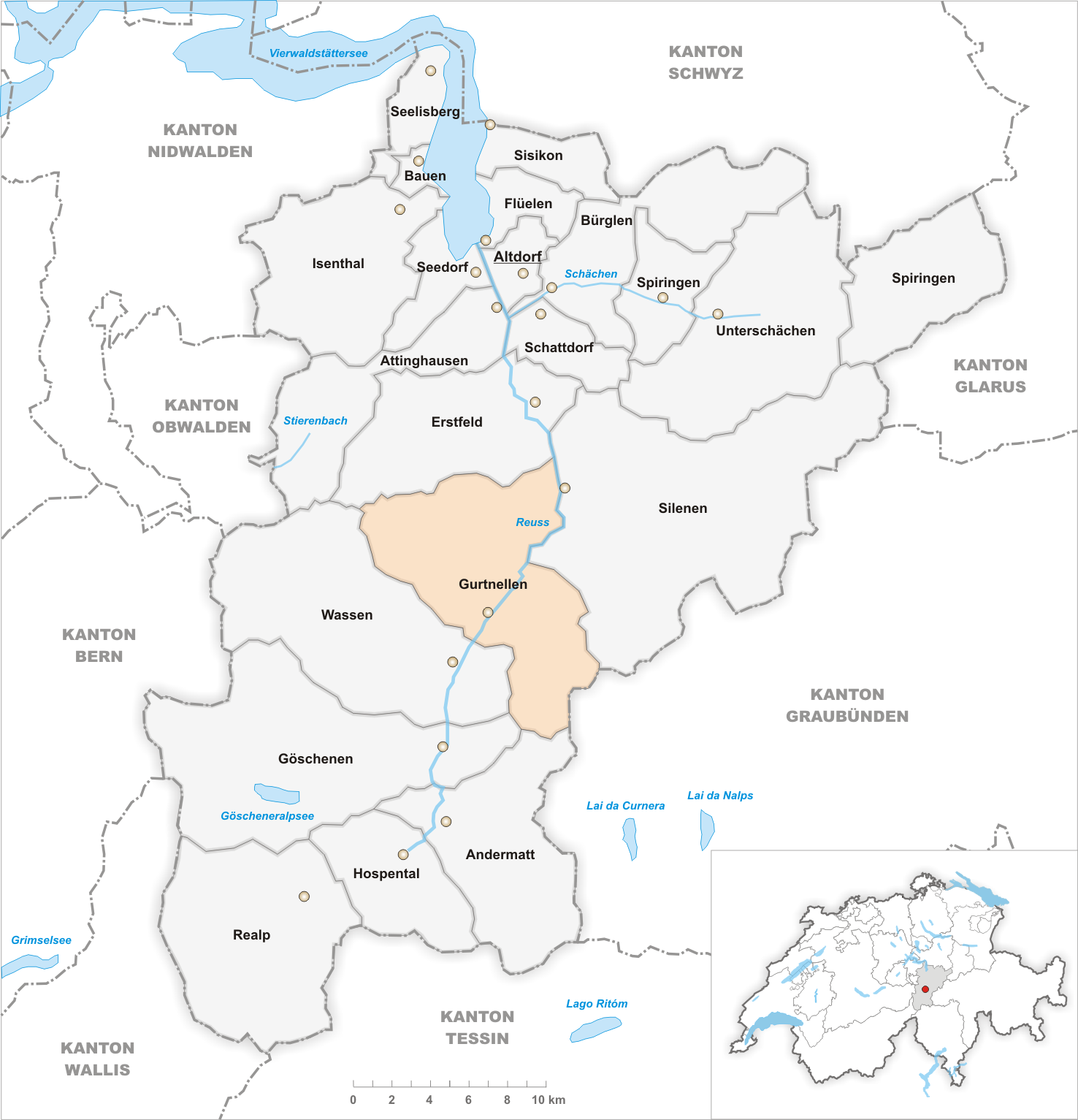 Municipality Gurtnellen